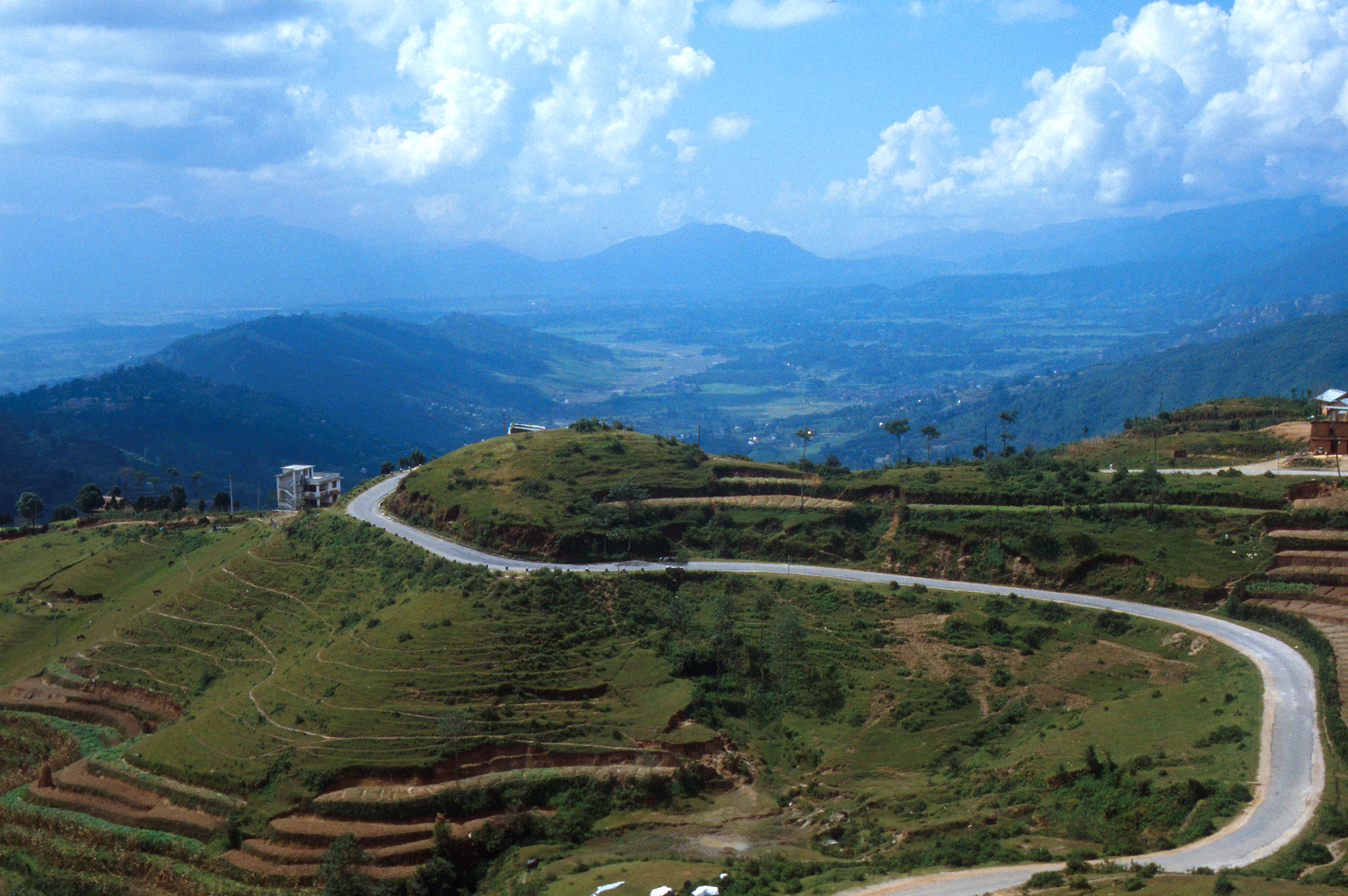 Narrow winding road leads through extremely diverse terrain in Nepal. This road leads north from Kathmandu towards Tibet.